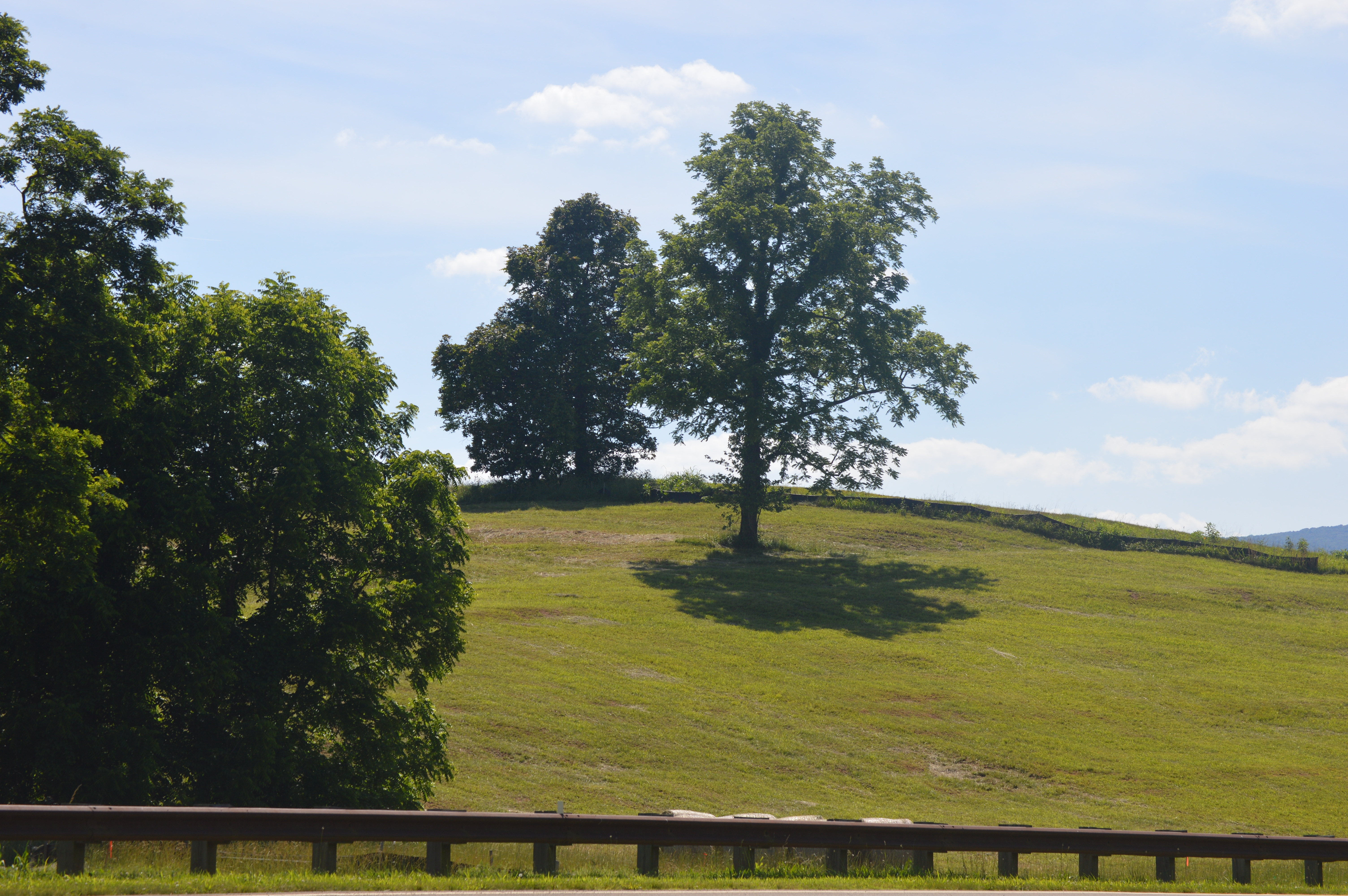 A hilltop on the Botetourt Center at Greenfield park property located northwest of Amsterdam in Botetourt County, Virginia, United States. The hilltop is part of the old Greenfield property, which is listed on the National Register of Historic Places.